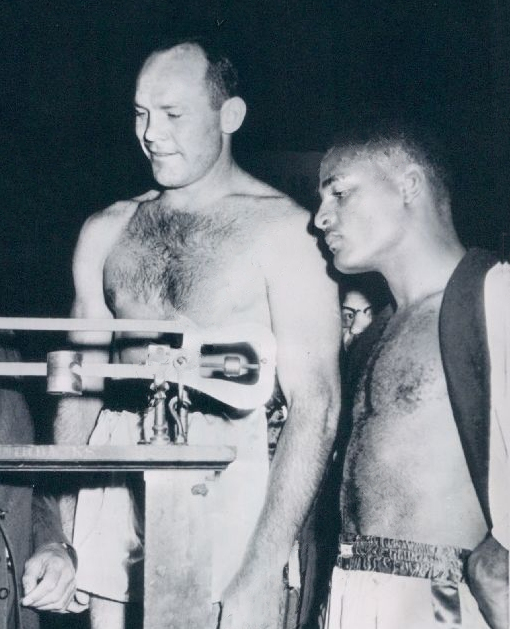 1958 Boxers Zora Folley & Pete Rademacher Weighted in Press Photo